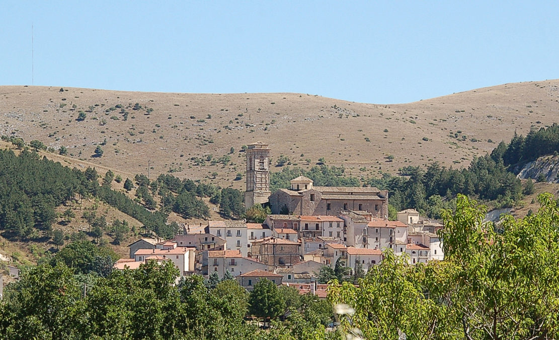 Goriano Sicoli